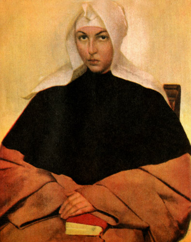 the nun of Ahmed sabry